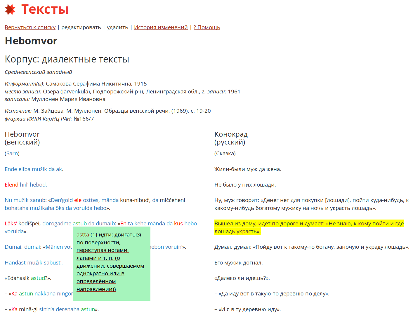 The fragment of the Veps text "Hebomvor" with parallel translation to Russian. The green box (tooltip) shows that the word form "astub" has lemma "astta", also this green box contains meaning and translation of the lemma "astta". Open corpus of Veps and Karelian languages. Karelian Research Centre of RAS, 2019.